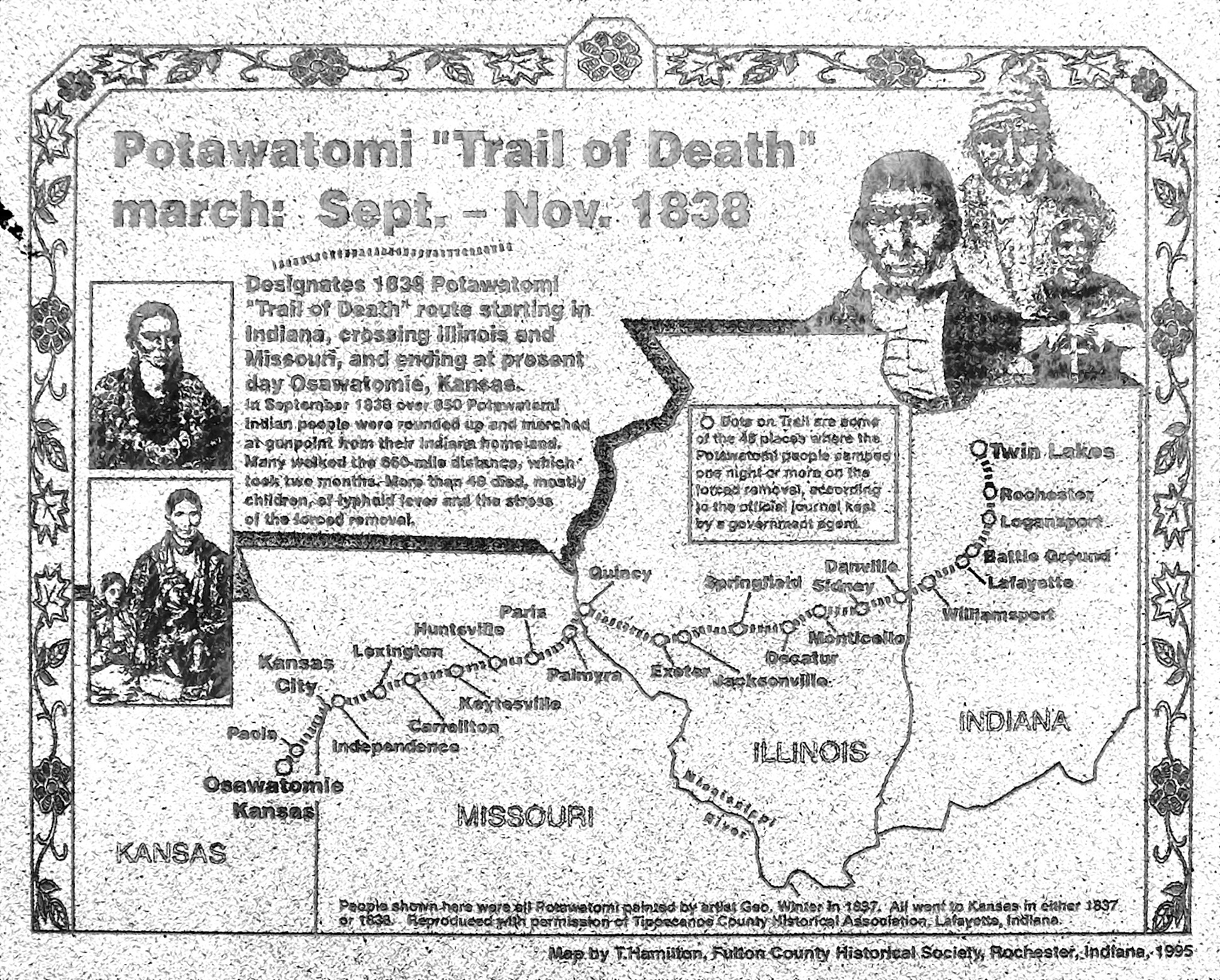 Memorial Plaque with a map of the Trail of Death.